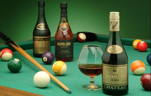 Brandy photo